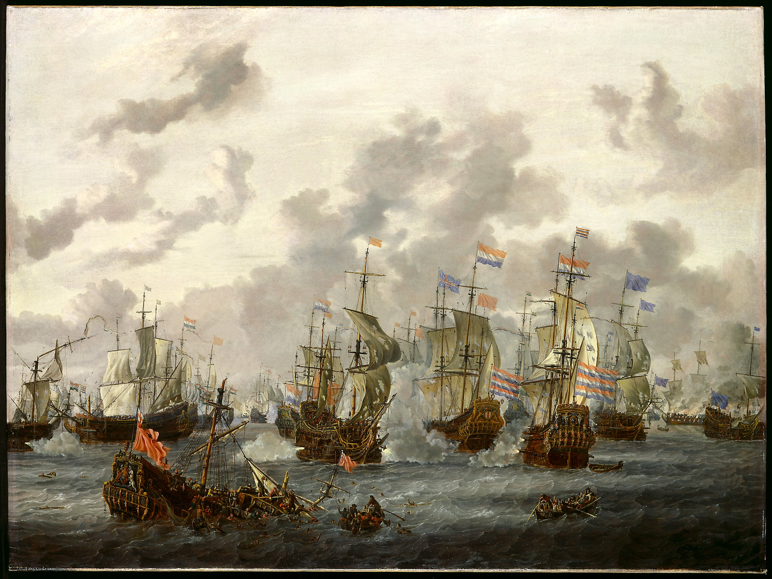 Dutch and English battle at sea